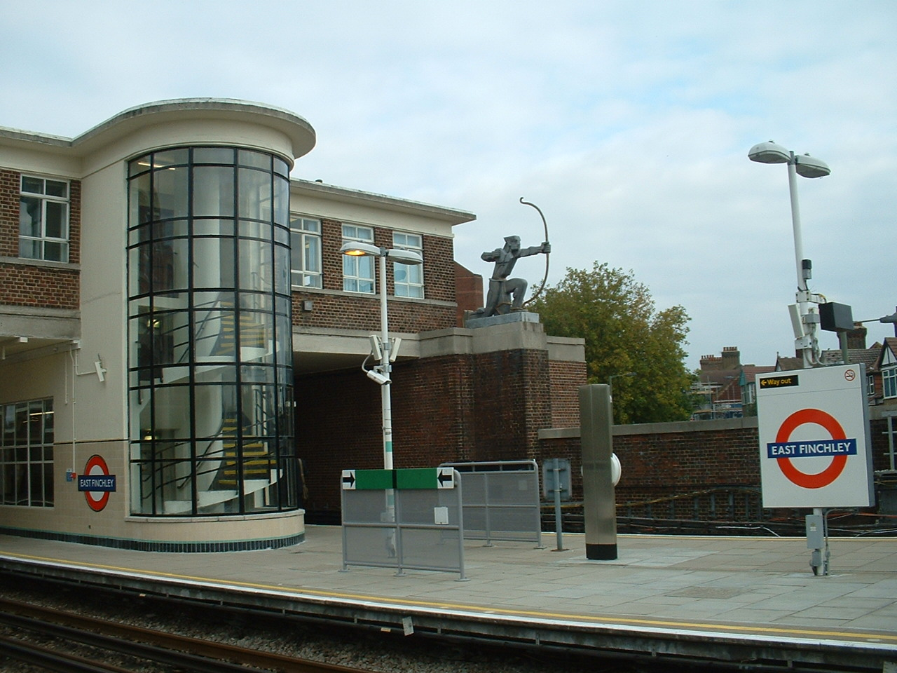 Southbound platforms at East Finchley tube station.